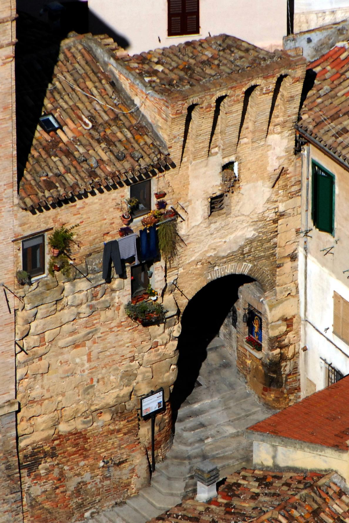 Musone Door in Osimo